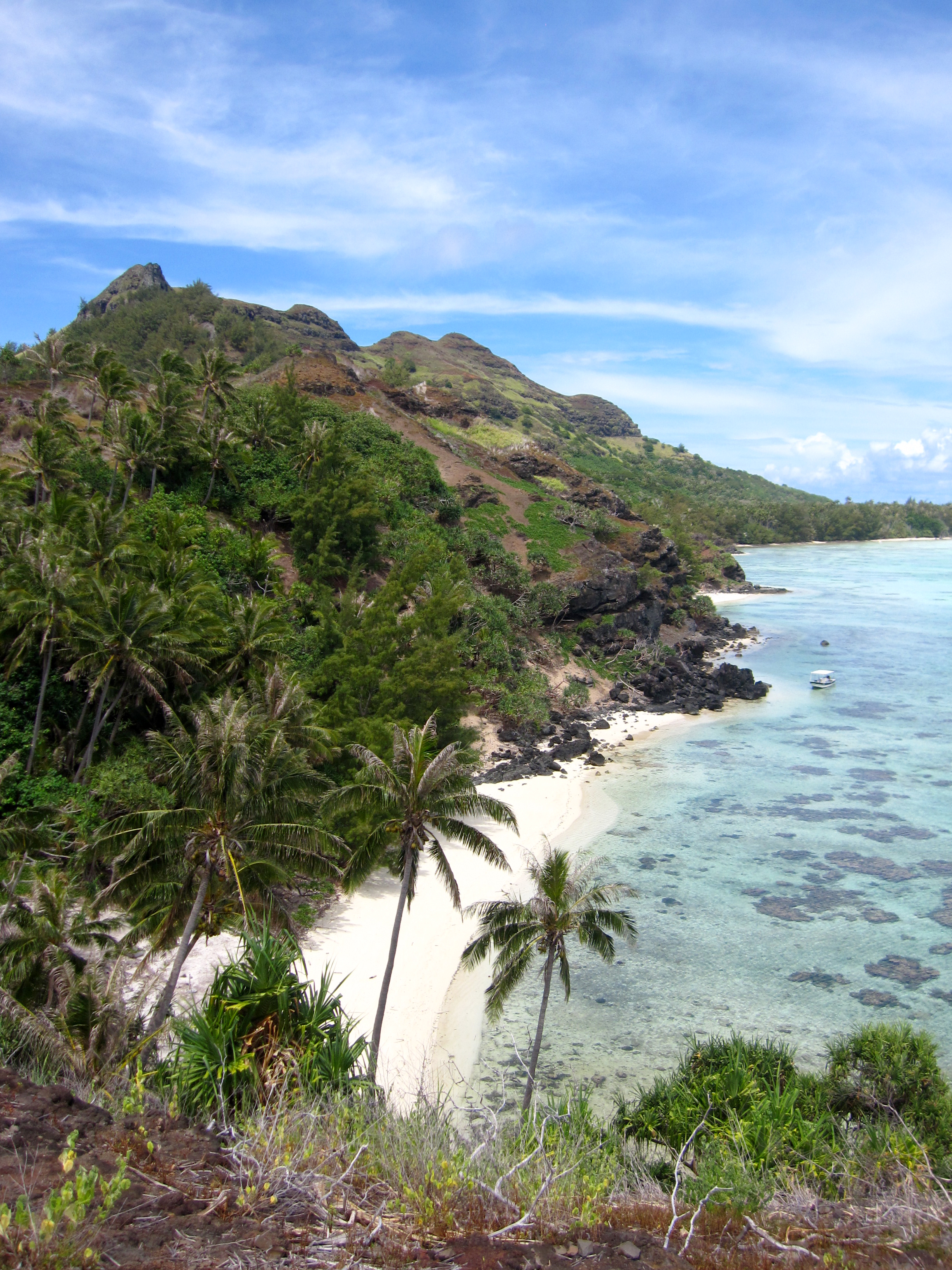 View on Akamaru island on January 2 2014.